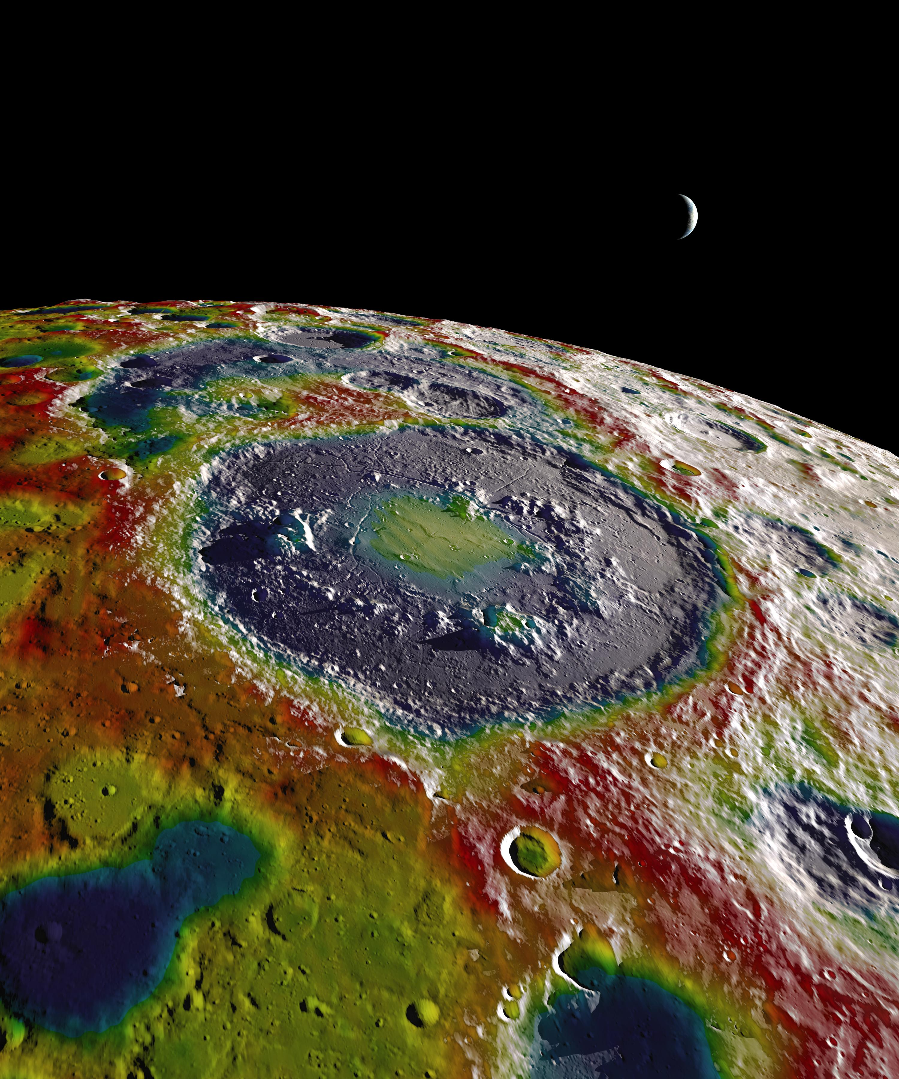 This still image features a free-air gravity map of the Moon's southern latitudes developed by S. Goossens et al. from data returned by the Gravity Recovery and Interior Laboratory (GRAIL) mission. If the Moon were a perfectly smooth sphere of uniform density, the gravity map would be a single, featureless color, indicating that the force of gravity at a given elevation was the same everywhere. But like other rocky bodies in the solar system, including Earth, the Moon has both a bumpy surface and a lumpy interior. Spacecraft in orbit around the Moon experience slight variations in gravity caused by both of these irregularities. The free-air gravity map shows deviations from the mean gravity that a cueball Moon would have. The deviations are measured in milliGals, a unit of acceleration. On the map, purple is at the low end of the range, at around -400 mGals, and red is at the high end near +400 mGals. Yellow denotes the mean. The map shown here extends from the south pole of the Moon up to 50°S and reveals the gravity for that region in even finer detail than the global gravity maps published previously. The image illustrates the very good correlation between the gravity map and topographic features such as peaks and craters, as well as the mass concentration lying beneath the large Schrödinger basin in the center of the frame. The terrain in the image is based on Lunar Reconnaissance Orbiter (LRO) altimeter and camera data.